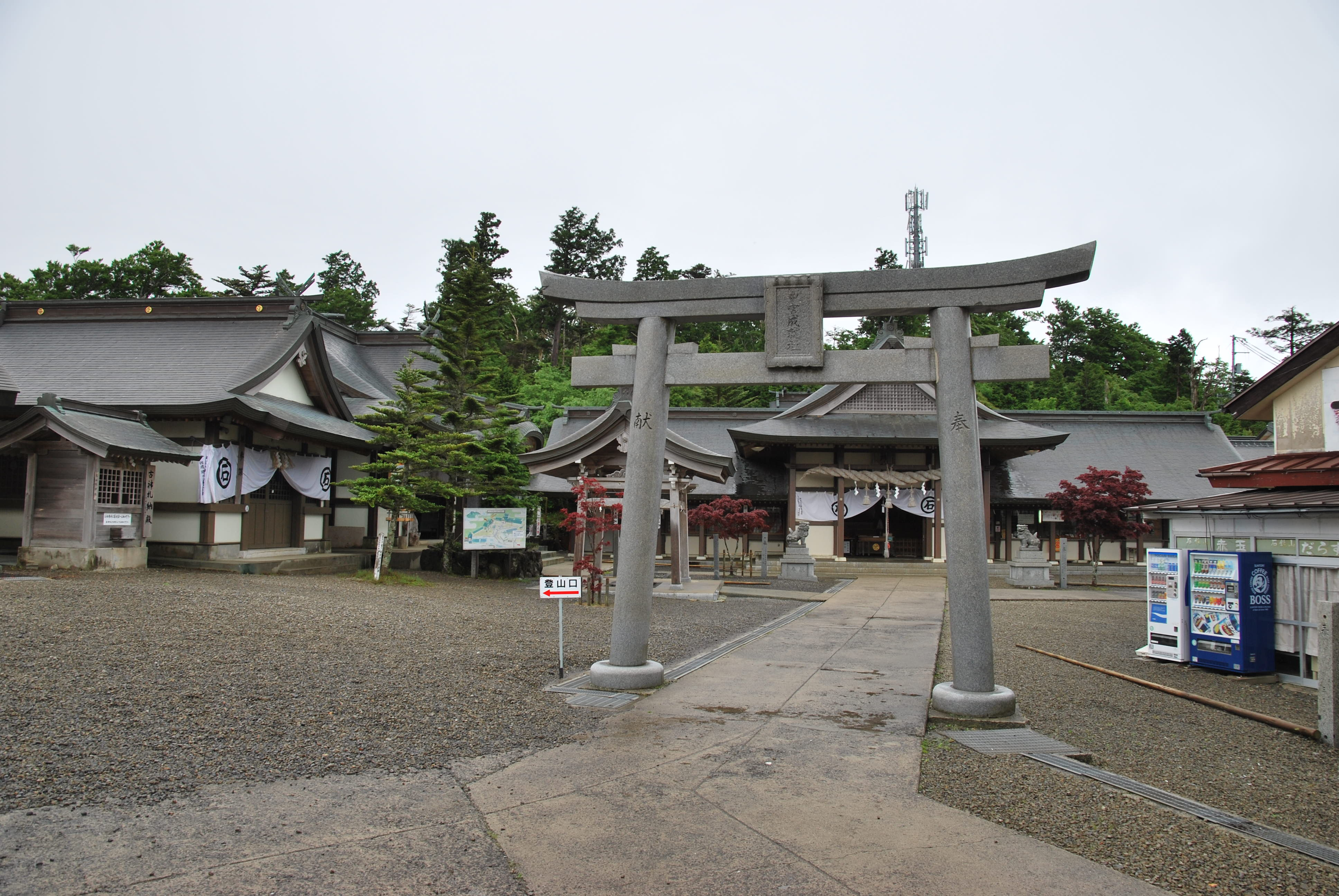 Ishizuchi-jinja Jōju-sha